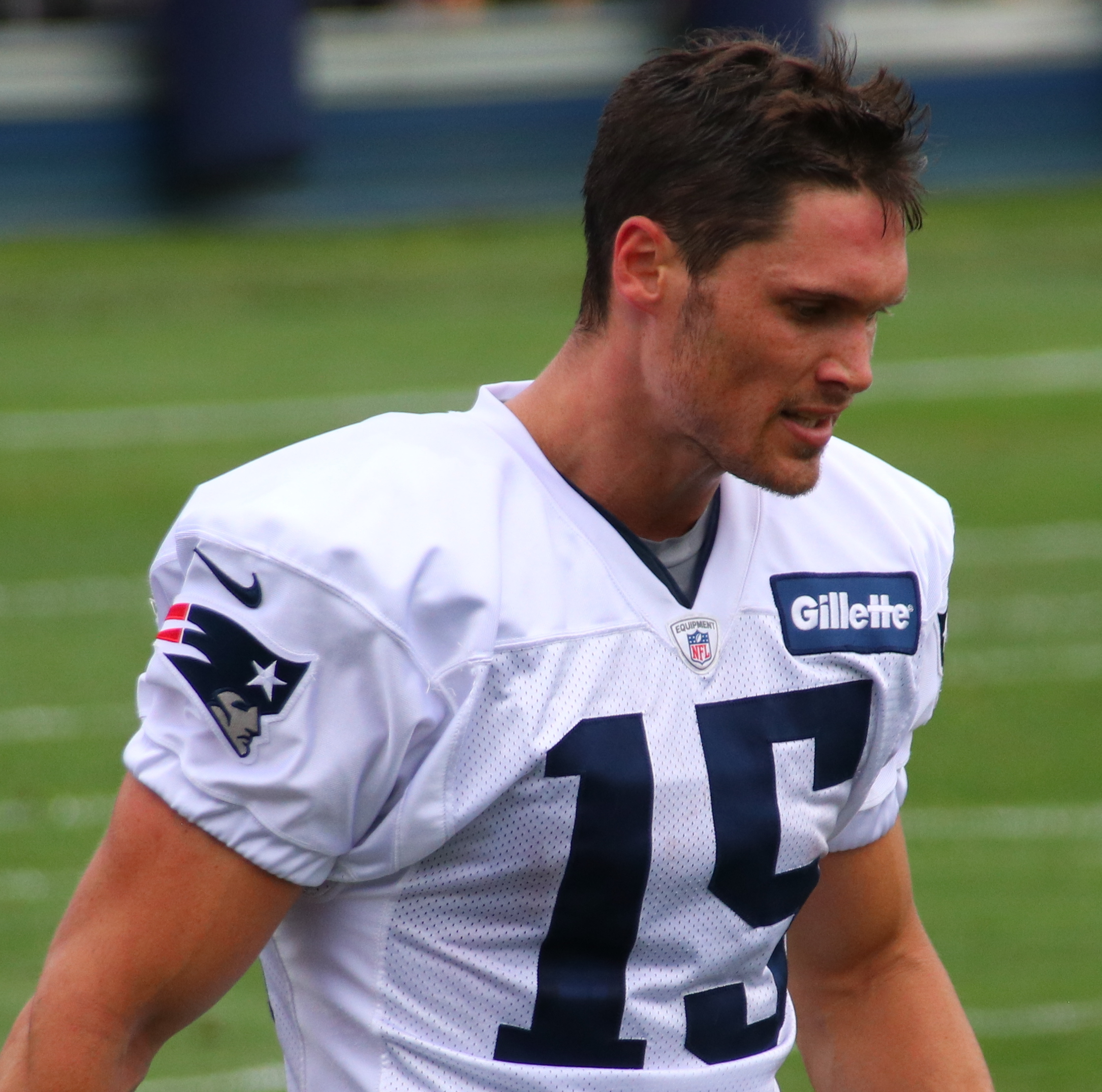 New England Patriots wide receiver, Chris Hogan, at training camp on July 27, 2017